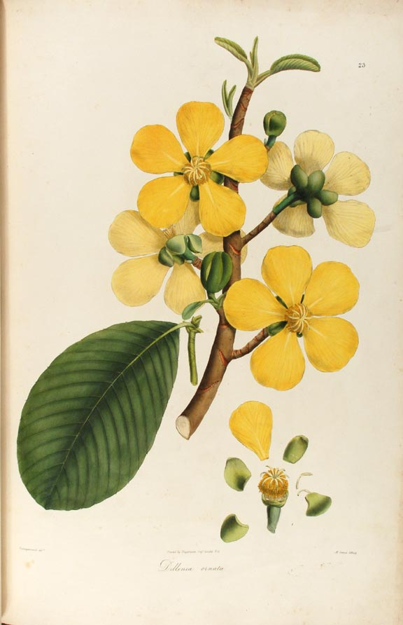 Dillenia (Dilleniaceae), plate from "Plantae Asiaticae Rariores"